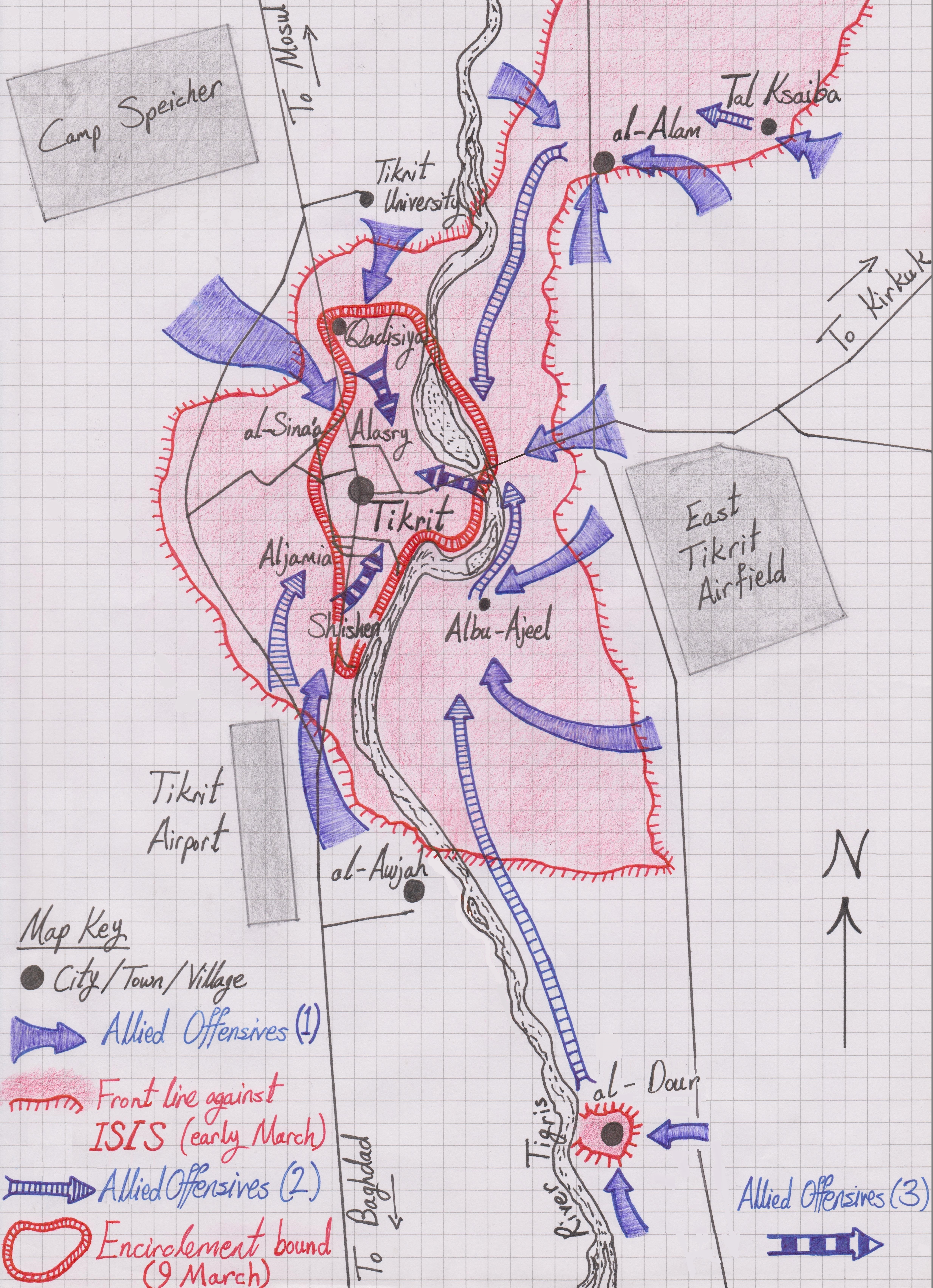 a battle diagram